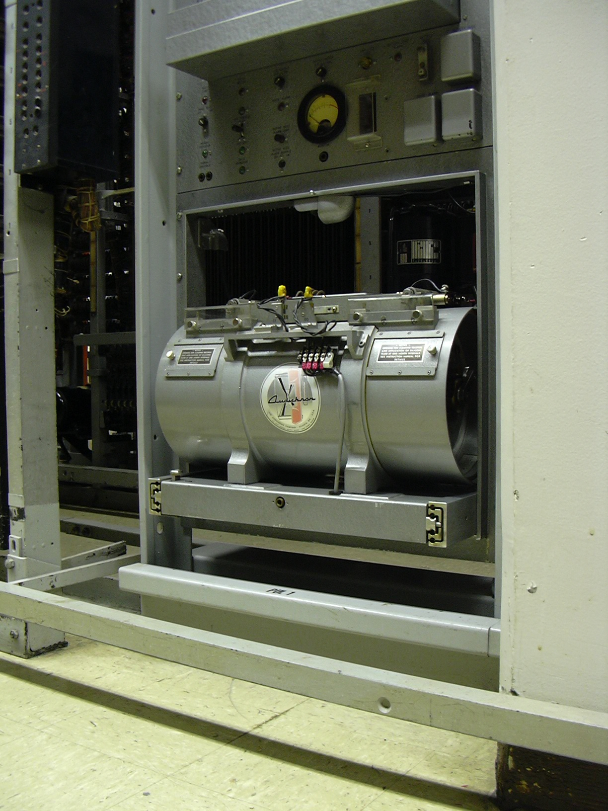 Photo of 1960's era Audichron M-12 Time Announcer